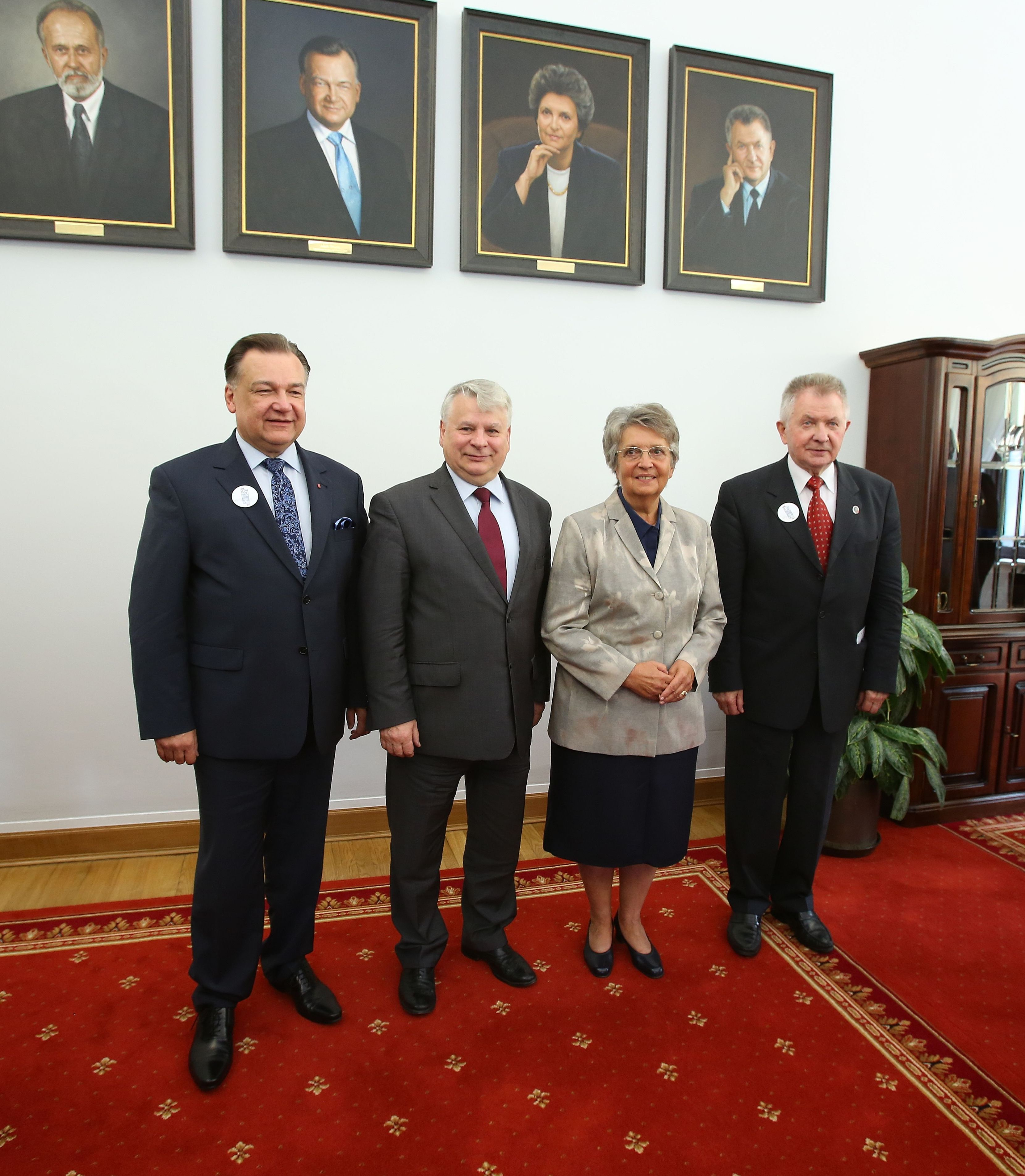 Adam Struzik, Bogdan Borusewicz, Alicja Grześkowiak and Longin Pastusiak in the Polish Senate